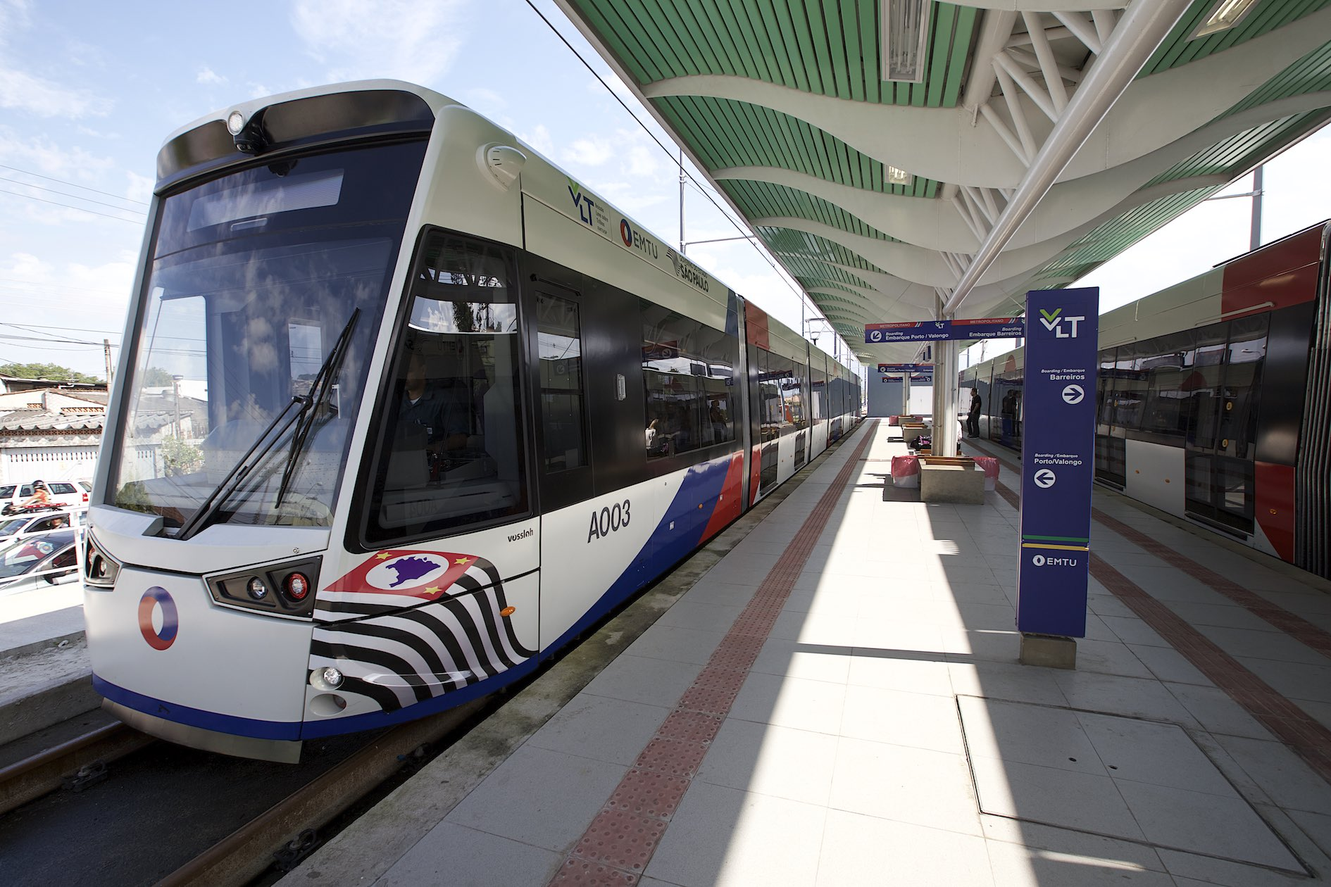 A station platform of the new Santos (Brazil) light rail system, with LRVs (light rail vehicles) on both sides of the platform, during non-public operation for a June 2015 signing ceremony involving the Governor of the State of São Paulo.